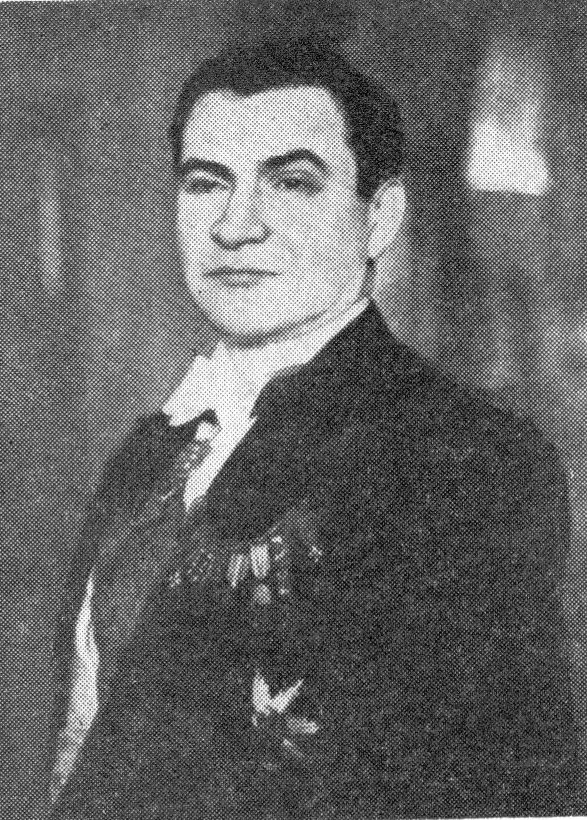 Bronisław Pieracki (1895-1934)